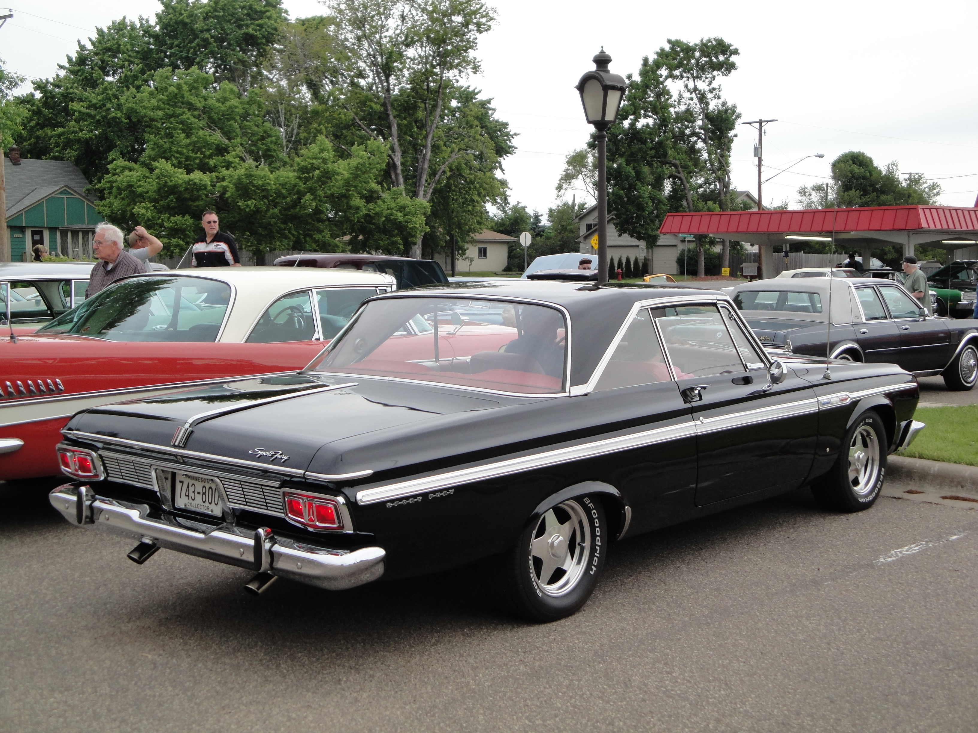 W.P.C. Restorers Club 10,000 Lakes Region Car Show June 12, 2011 Wagner's Drive in